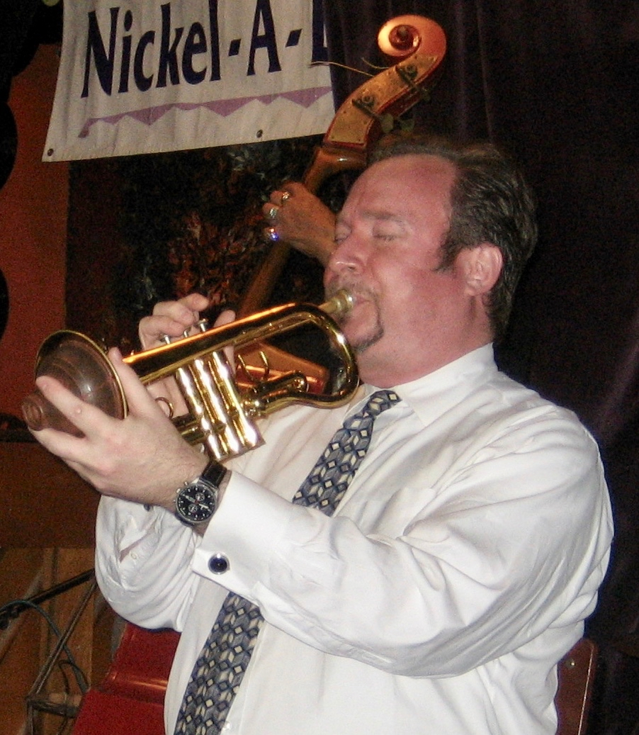 Jon-Erik Kellso performing in New Orleans, 2007